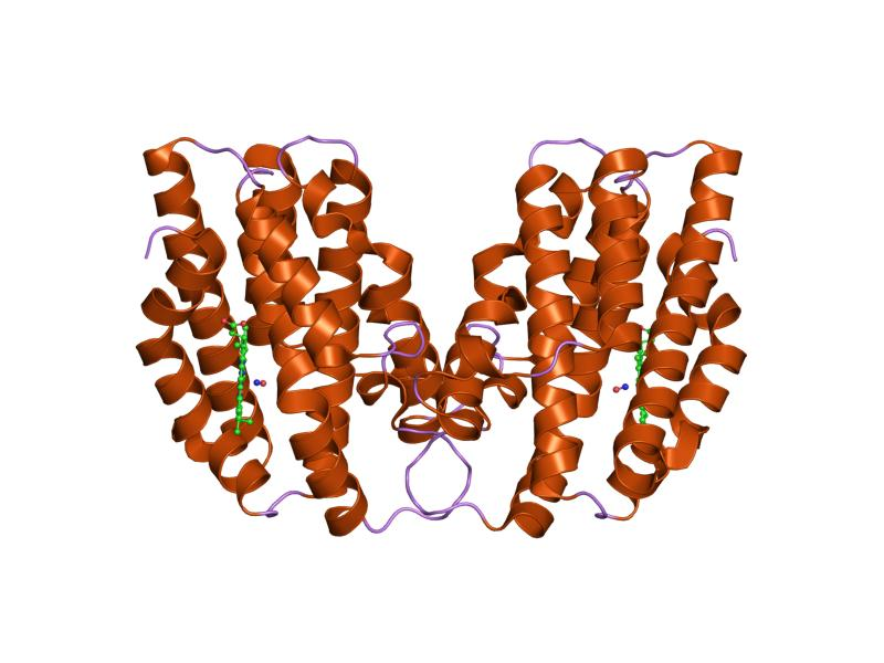 Cartoon representation of the molecular structure of protein registered with 1twr code.